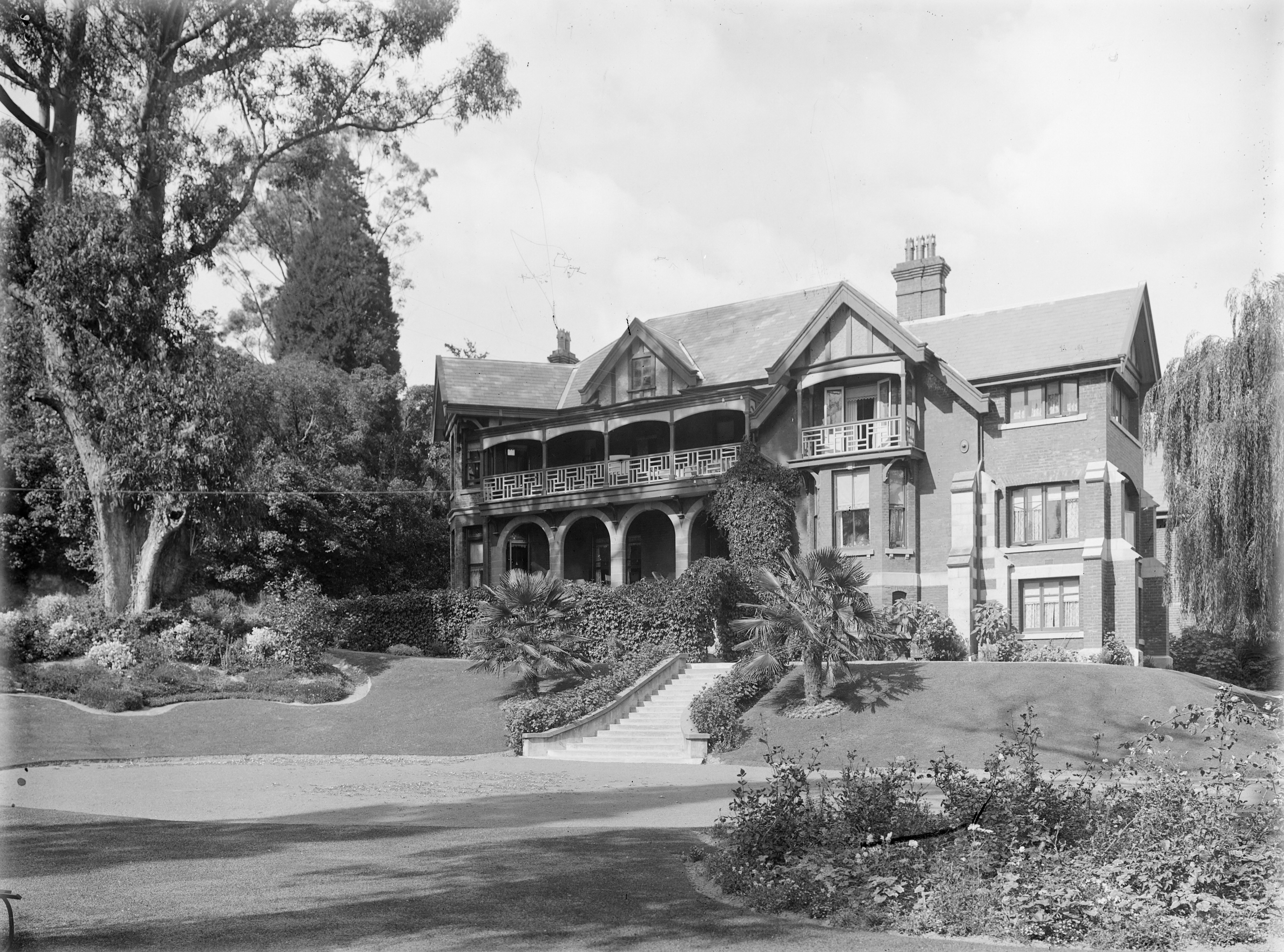 Riverlaw, Aynsley Terrace, Opawa, Christchurch.